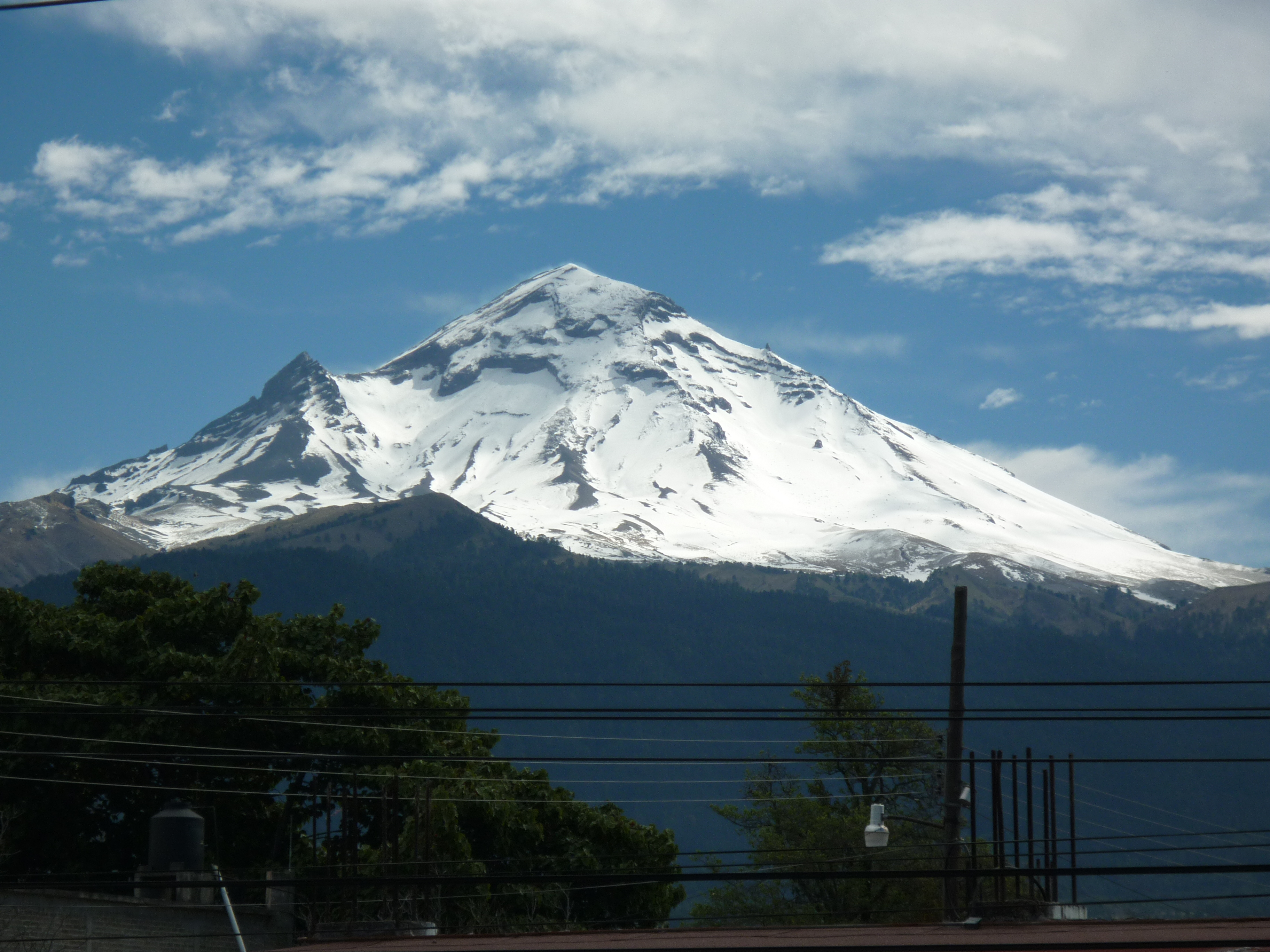 El volcan Popocatépetl visto desde Atlautla